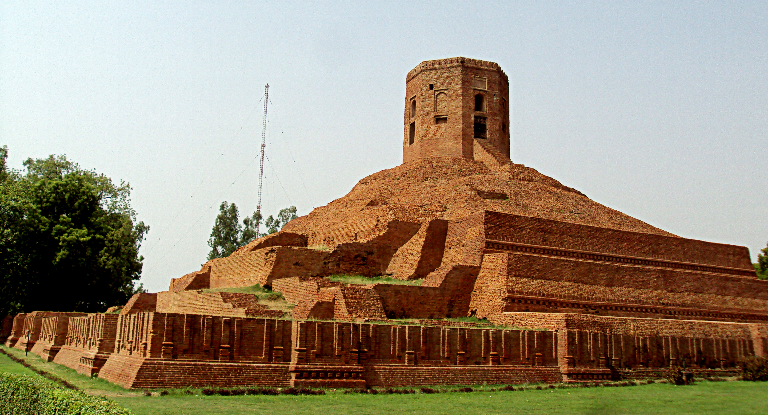 The whole area to the east of the buddhist site explored by the Archaoelogical department extending upto the limits of the lake named Narokhar